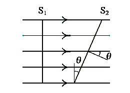 Fluxo el trico atrav s de dois planos S22 p (1)